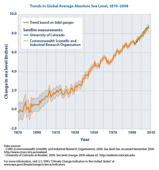 This image shows trends in global average absolute sea level between 1870 and 2008. From the cited public-domain source (US Environmental Protection Agency (US EPA), 2010): "After a period of approximately 2,000 years of little change, average sea levels rose worldwide throughout the 20th century, and the rate of change has accelerated in recent years. [...] When averaged over all the world's oceans, absolute sea level increased at an average rate of 0.06 inches per year from 1870 to 2008 [...] From 1993 to 2008, however, average sea level rose at a rate of 0.11 to 0.13 inches per year—roughly twice as fast as the long-term trend. [...] While absolute sea level has increased steadily overall, particularly in recent decades, regional trends vary, and absolute sea level has decreased in some places [...] Relative sea level also has not risen uniformly because of regional and local changes in land movement and long-term changes in coastal circulation patterns."